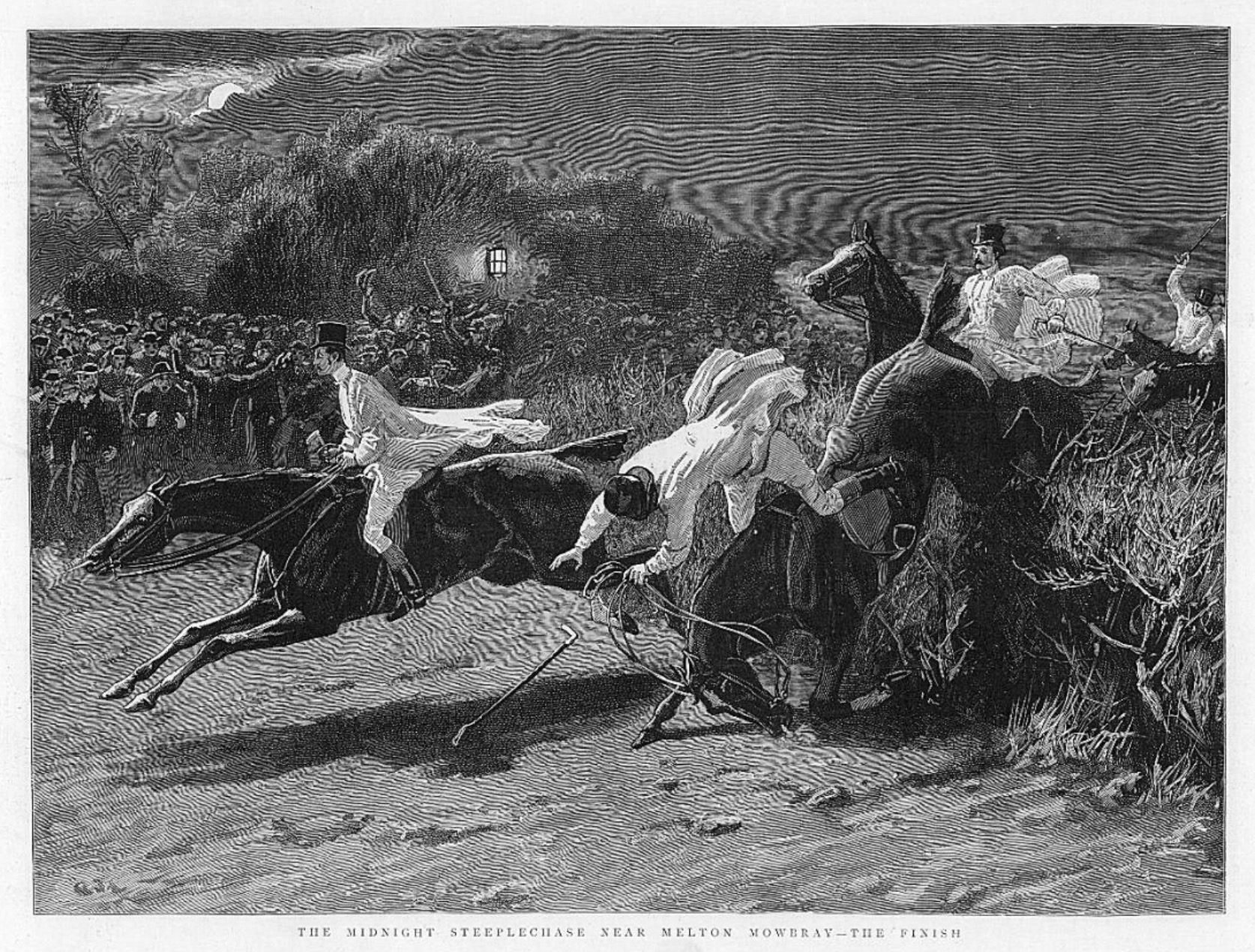 "The Midnight Steeplechase near Melton Mowbray – the finish", wood engraving in The Graphic, 22 March 1890